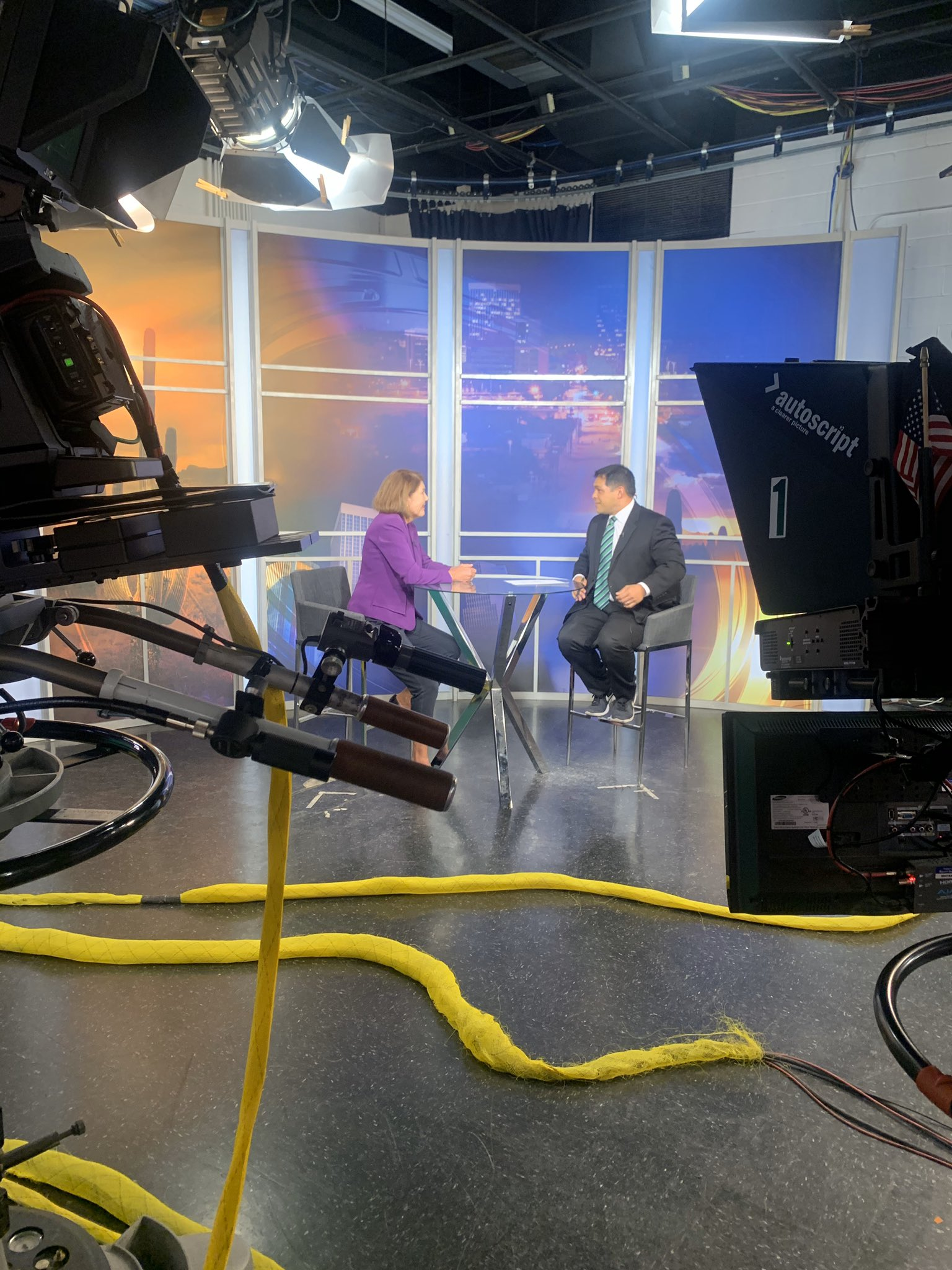 Behind the scenes look at my live interview with @KOLDNews this morning. We discussed the House impeachment inquiry and our public town hall tomorrow. Always great chatting, @ACNewsman!